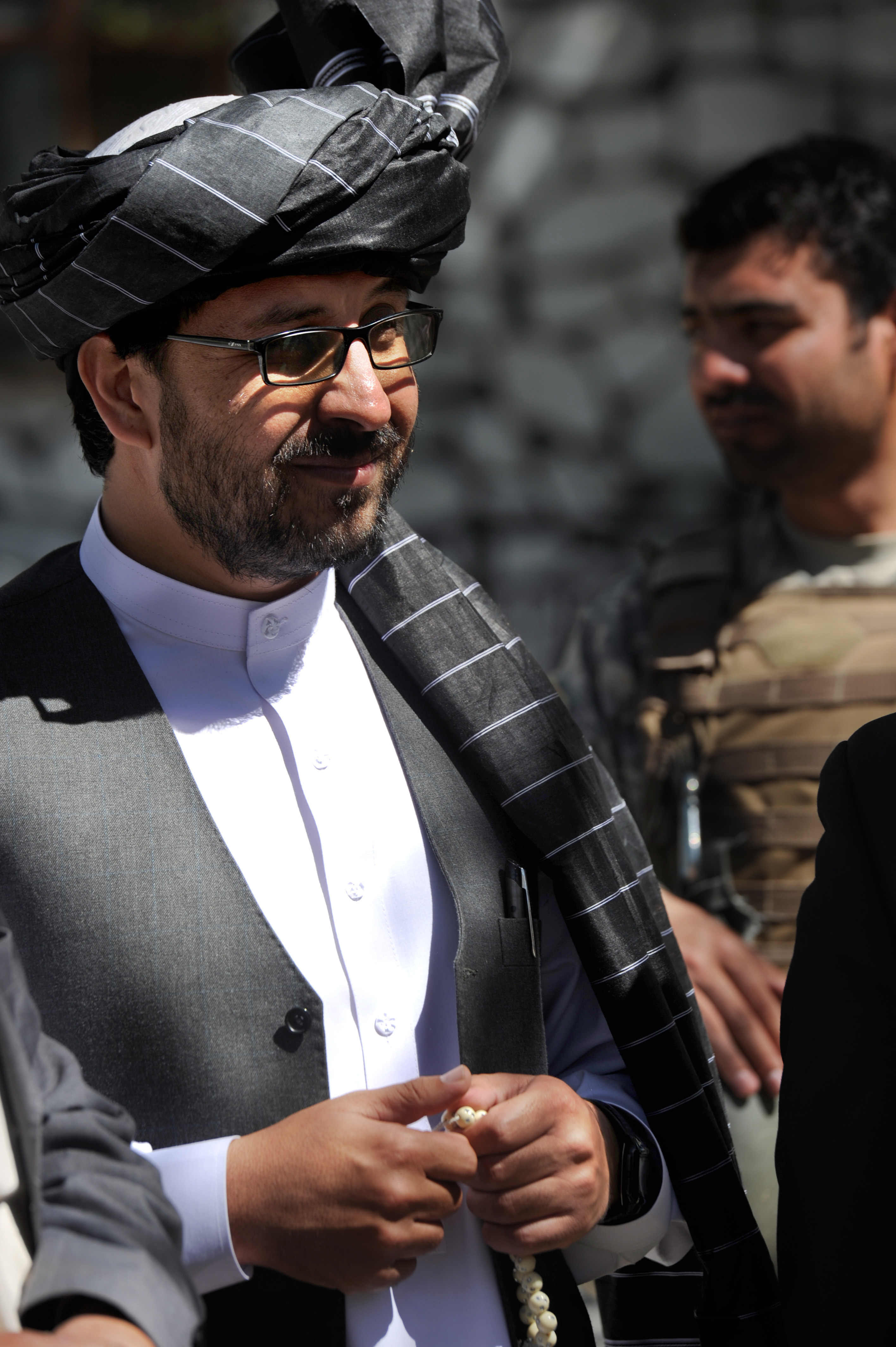 Mohammad Iqbal Azizi, Governor of Laghman Province, Afghanistan, on Sunday, March 20, 2011. met with the delegation and took them on a tour of a local girls' school.